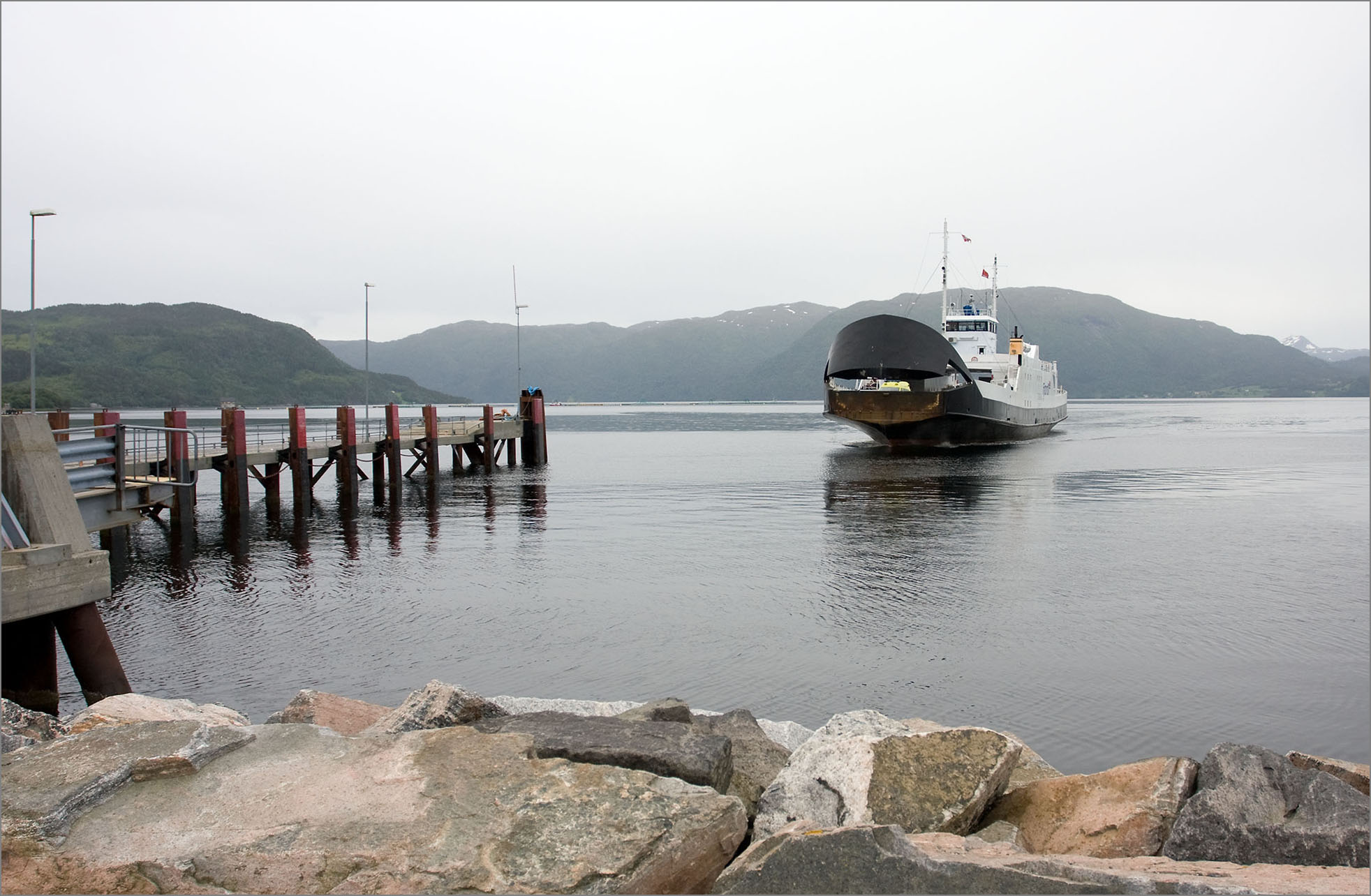 'Stordal' the ferry / Halsa, Norway